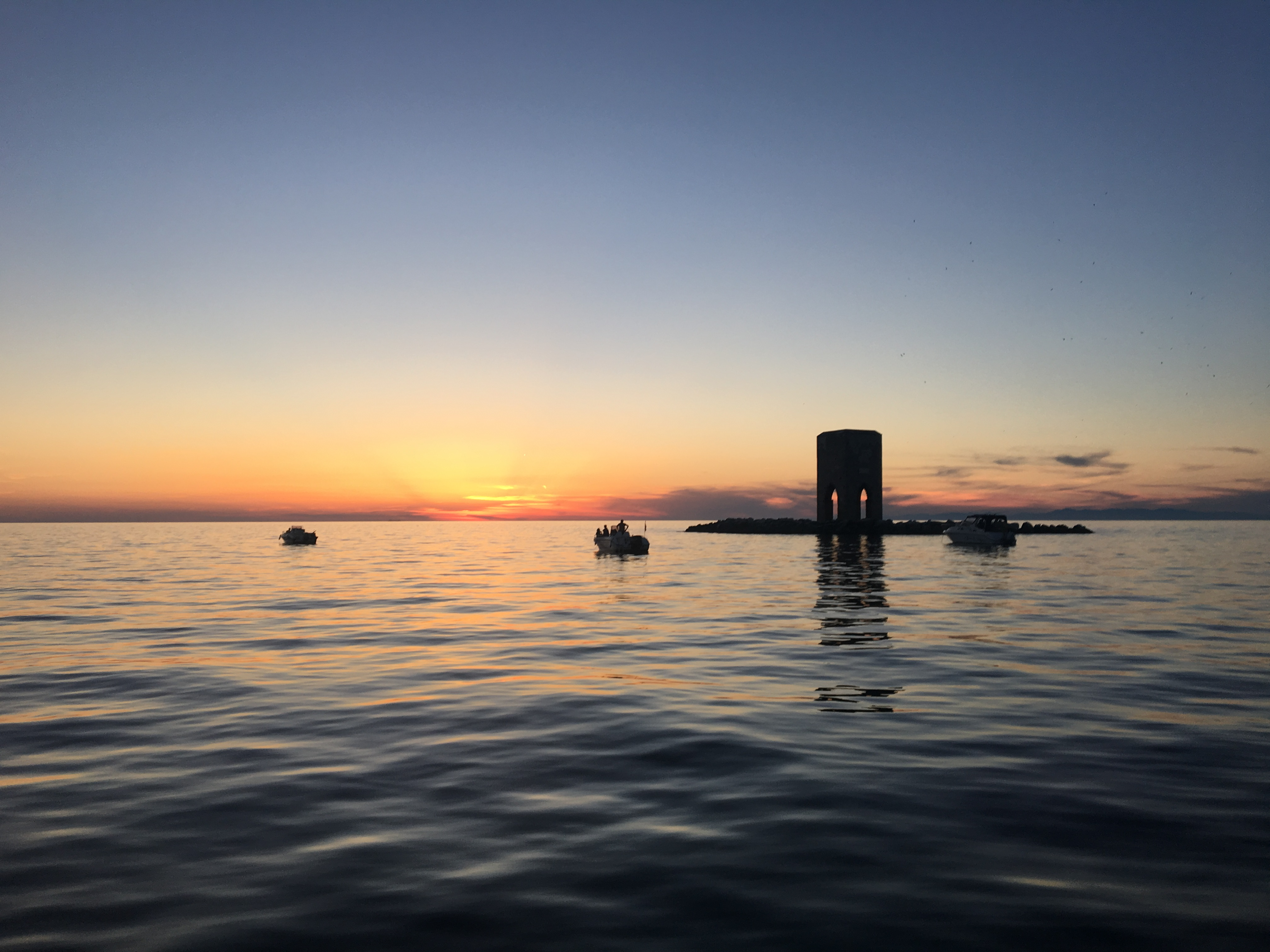 Italy, Livorno, Meloria. The Meloria Tower.